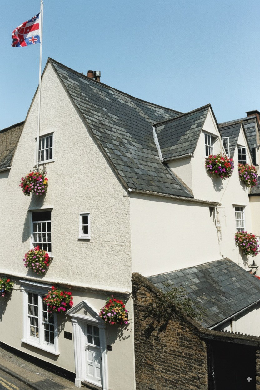 Greene's Tutorial College - Oxford - Painting